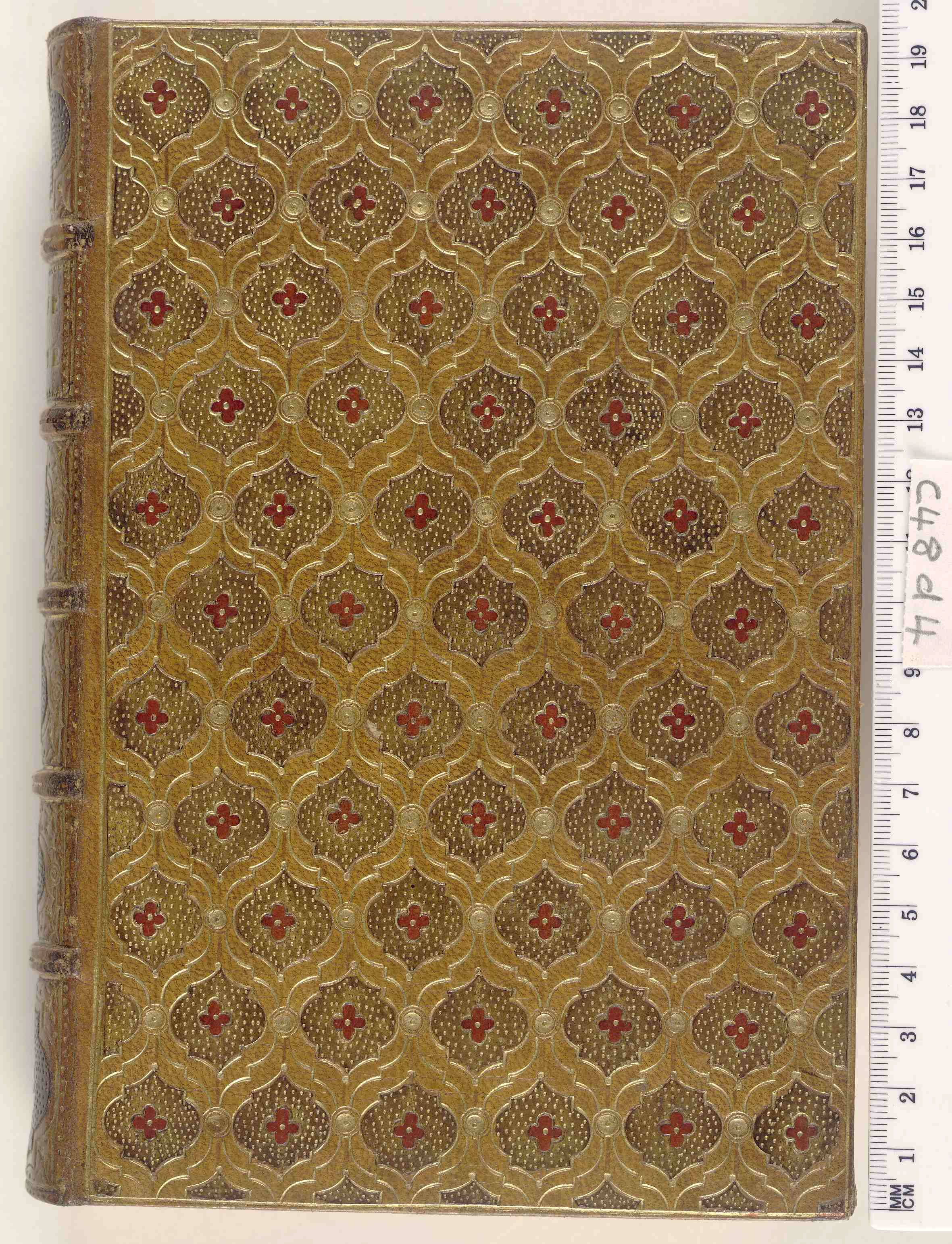 Style: All over design|Repeated motifs; Caption: Upper cover; Colour: Citron; Edge: Gilt